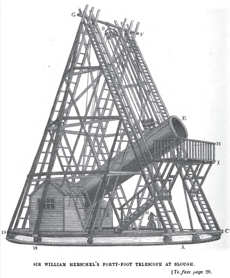 Herschel's 40ft Telescope facing p.29, Memoir and correspondence of Caroline Herschel (1879)